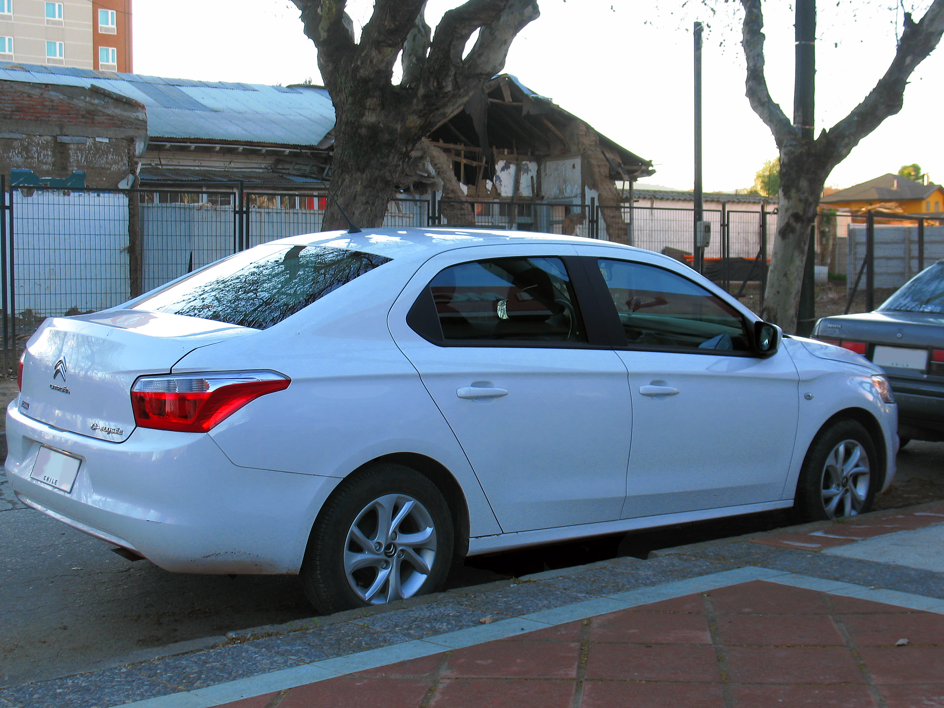 Citroen C-Elysee 1.6 HDi Seduction 2013